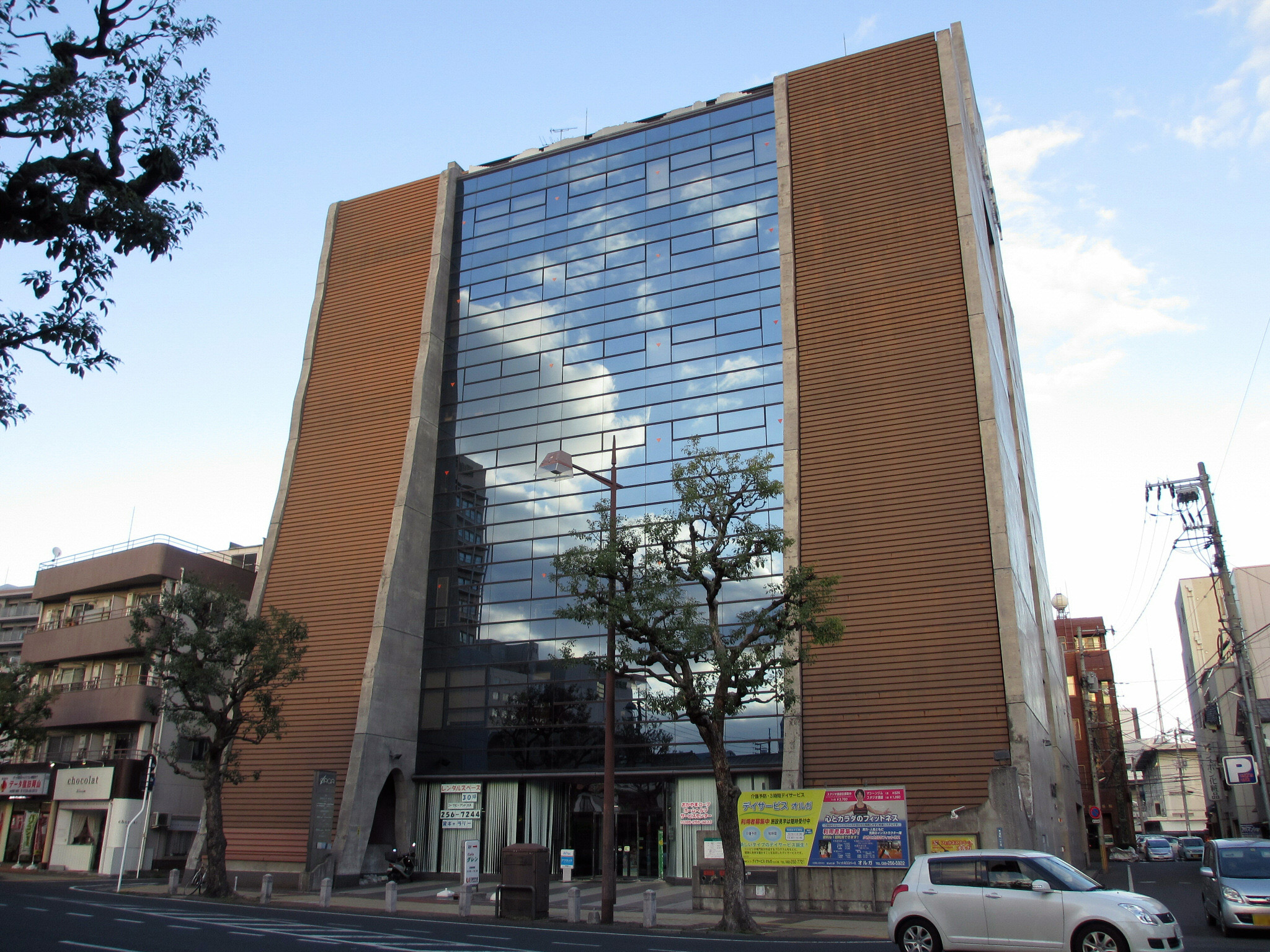 Okayama Orga Hall